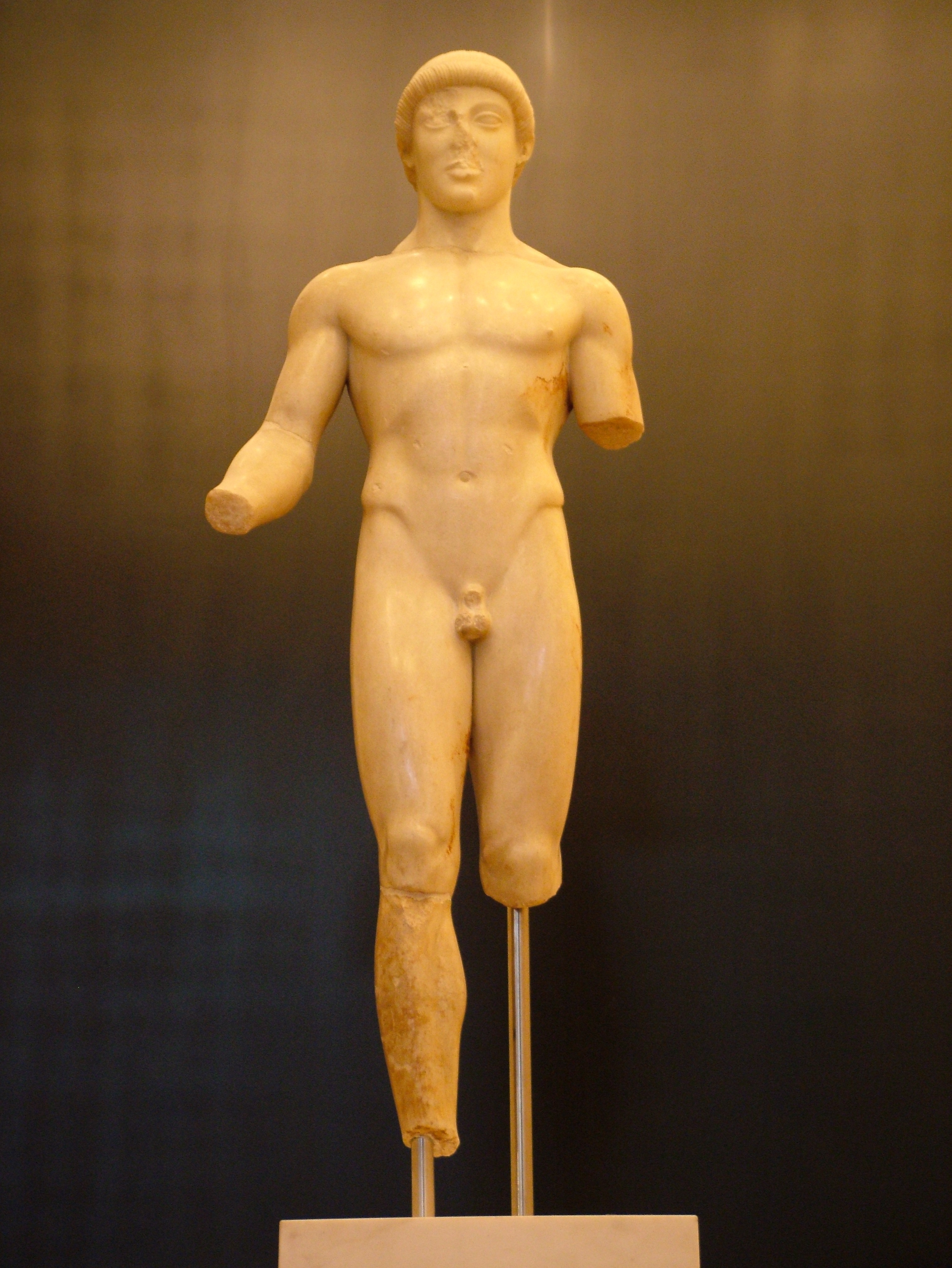 Ephebe, 5th century B.C., museum of Agrigento, Sicilia.